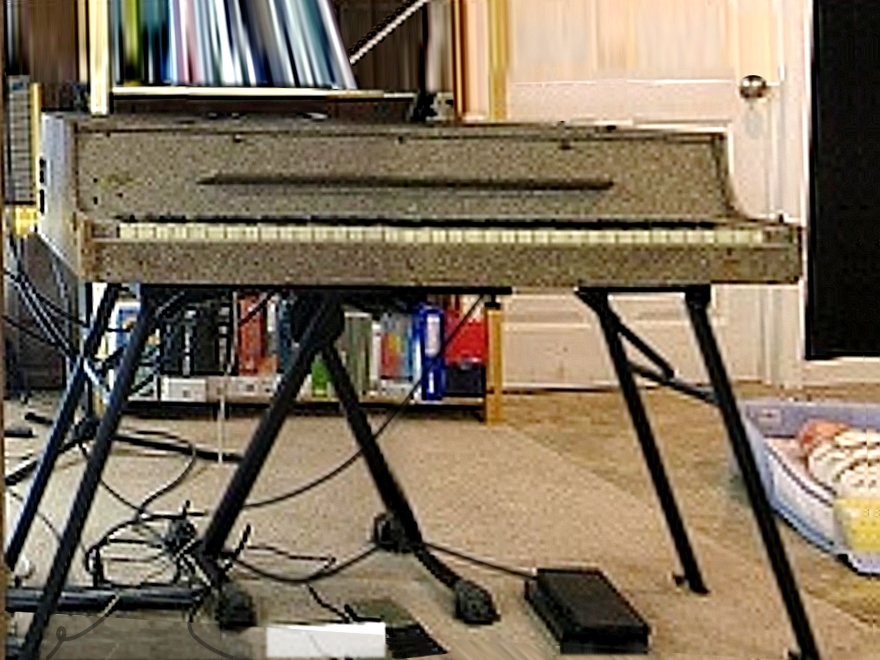 Wurlitzer 112 tube electric piano (1955-) Sarlacc Studios, back 10.28